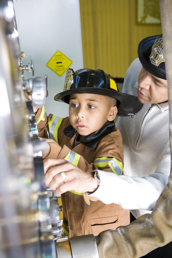 Playscape at Children's Museum of Denver